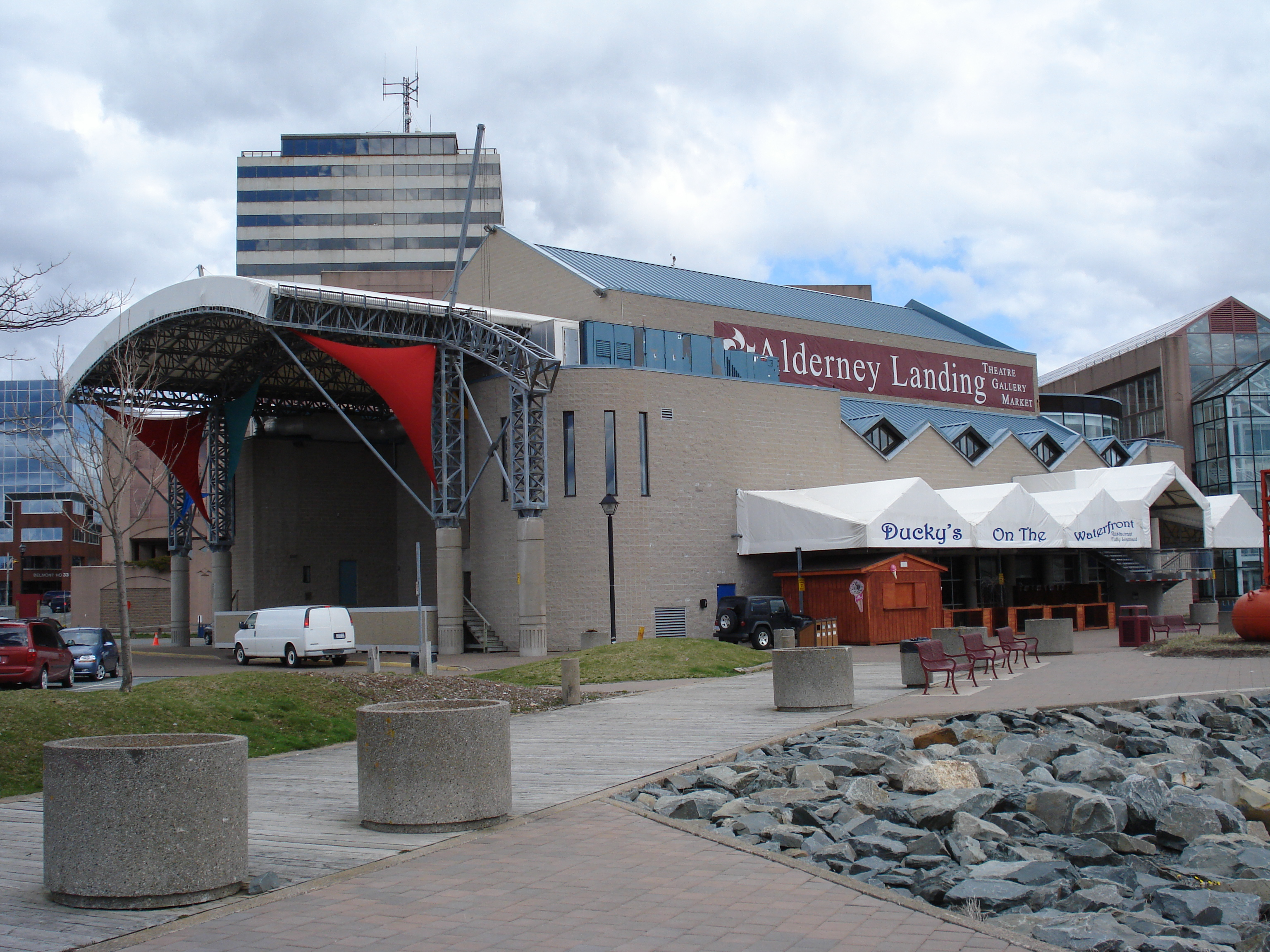 Photo taken by Chris Grady (User:hfx_chris) 2007-05-03